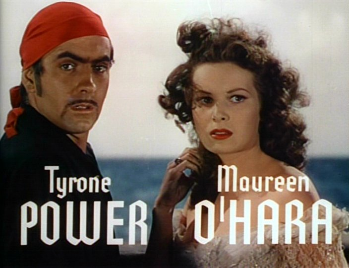 Tyrone Power and Maureen O'Hara in a screenshot from the trailer for the film The Black Swan.